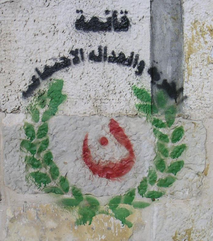 Photo: Soman